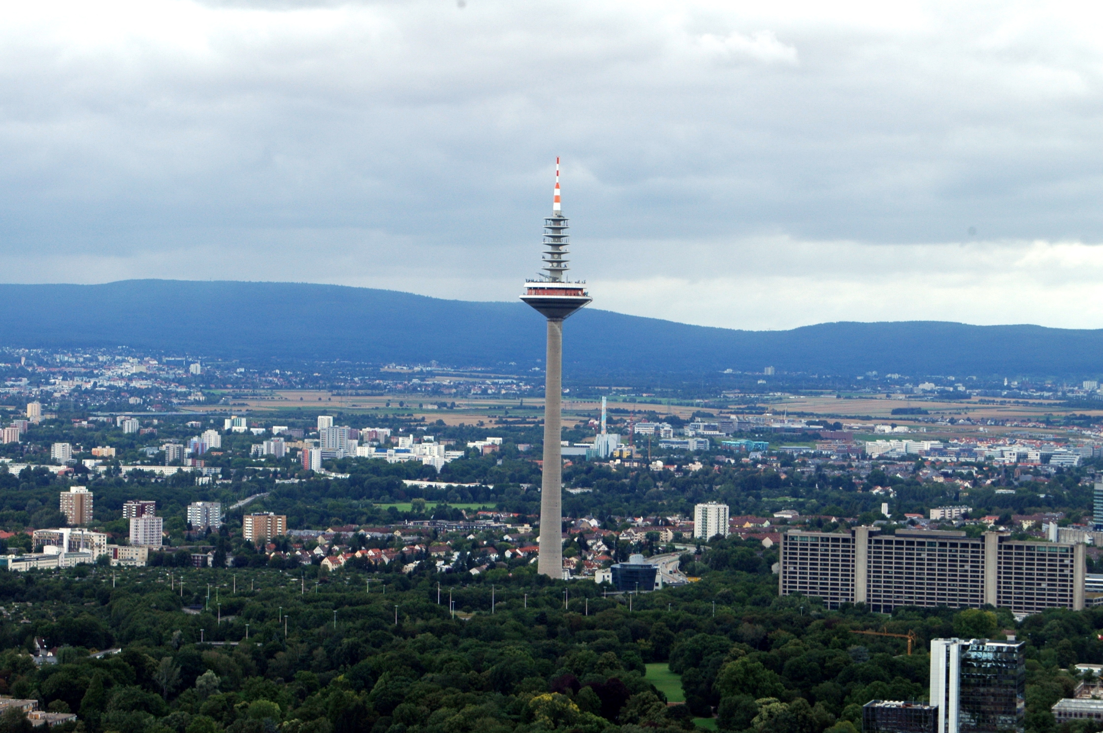 Created by Erebus555. This is an image of the Europaturm from MainTower in Frankfurt.